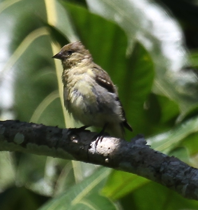 Amazonia Lodge- Ecuador